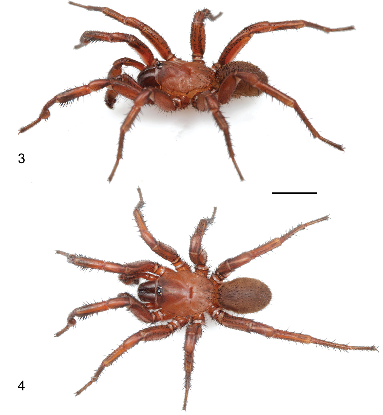 Myrmekiaphila tigris male holotype specimen in life. 3 oblique view 4 dorsal view. Scale bar = 5mm.